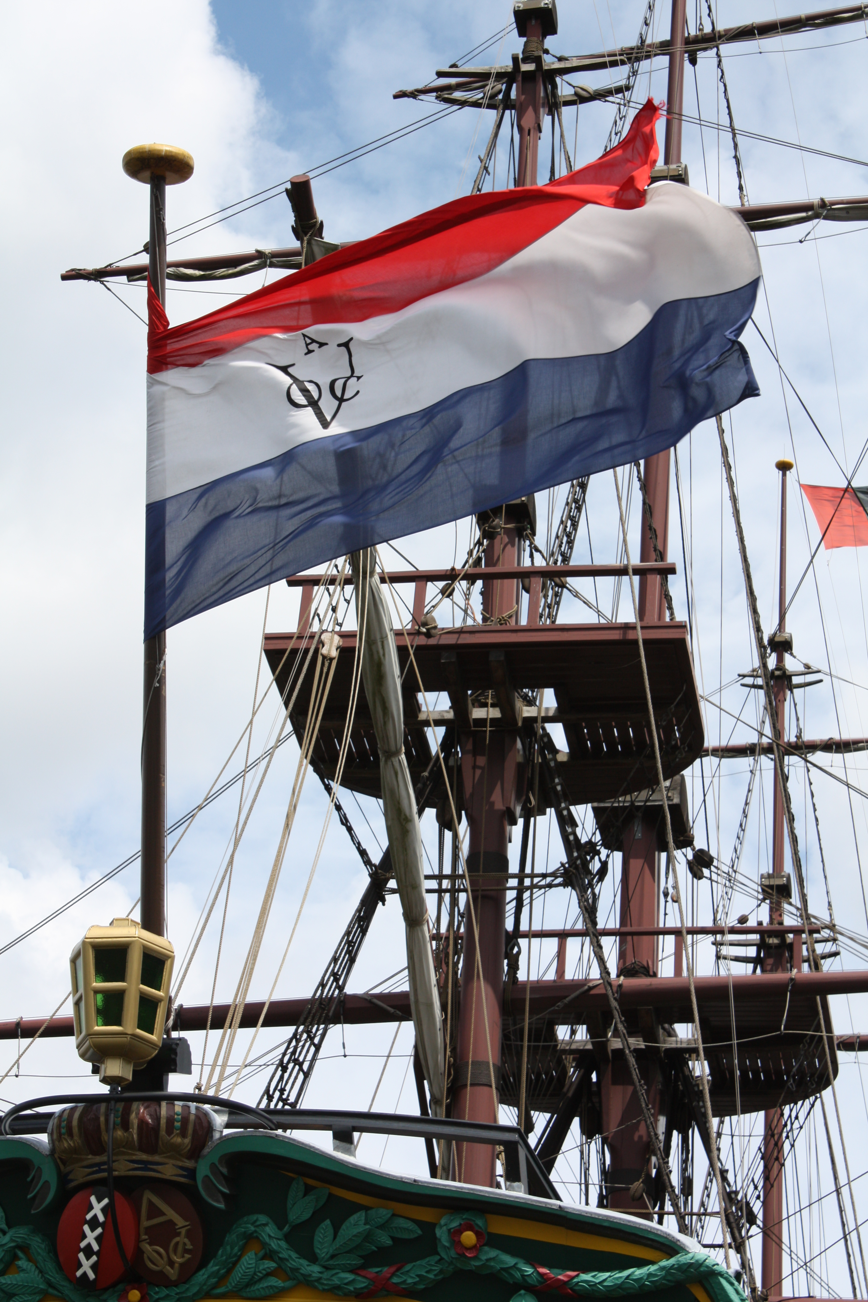 Flag of the VOC (Dutch East India Company) on the replica of the East Indiaman Amsterdam in Amsterdam.